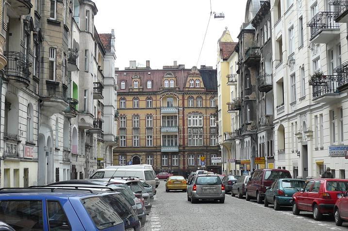 Rybaki District in Poznan, Kwiatowa Street.